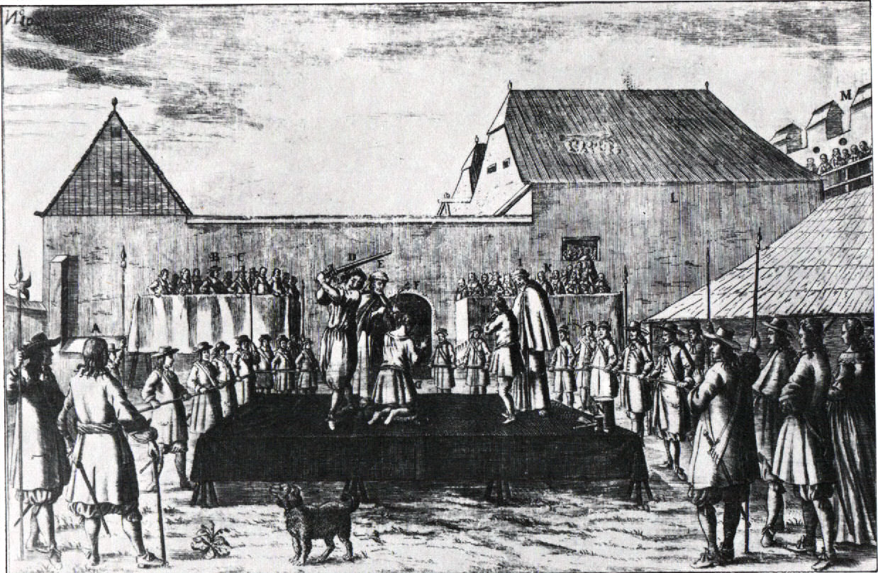 Beheading of Petar Zrinski and Krsto Frankopan in Wiener Neustadt (30 April 1671)